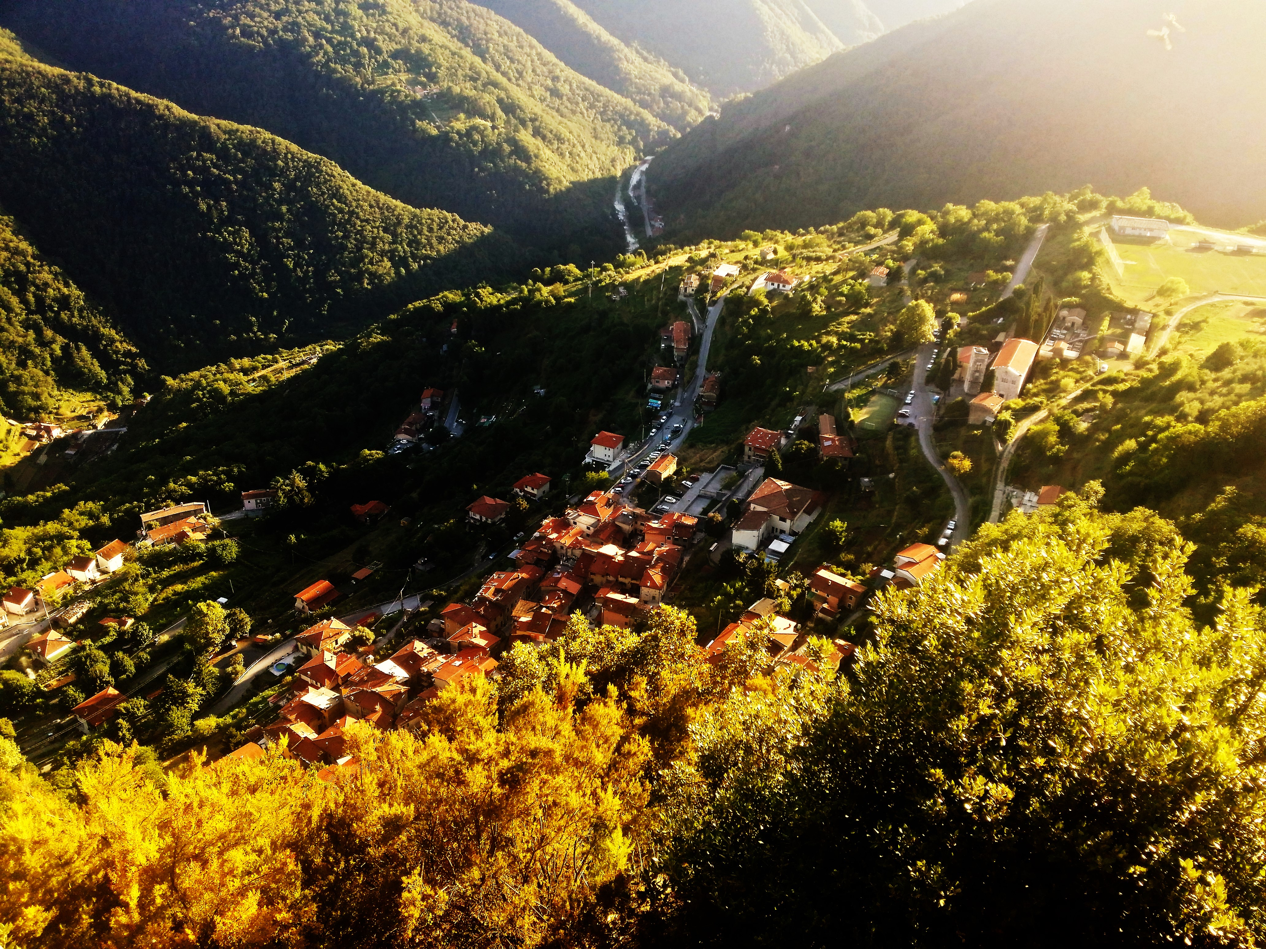 An amazing view of the Apuan Alps and the coast of Versilia seen from "The Castle", the top of a mountain in Retignano, in the municipality of Stazzema, Tuscany, Italy. August 2015